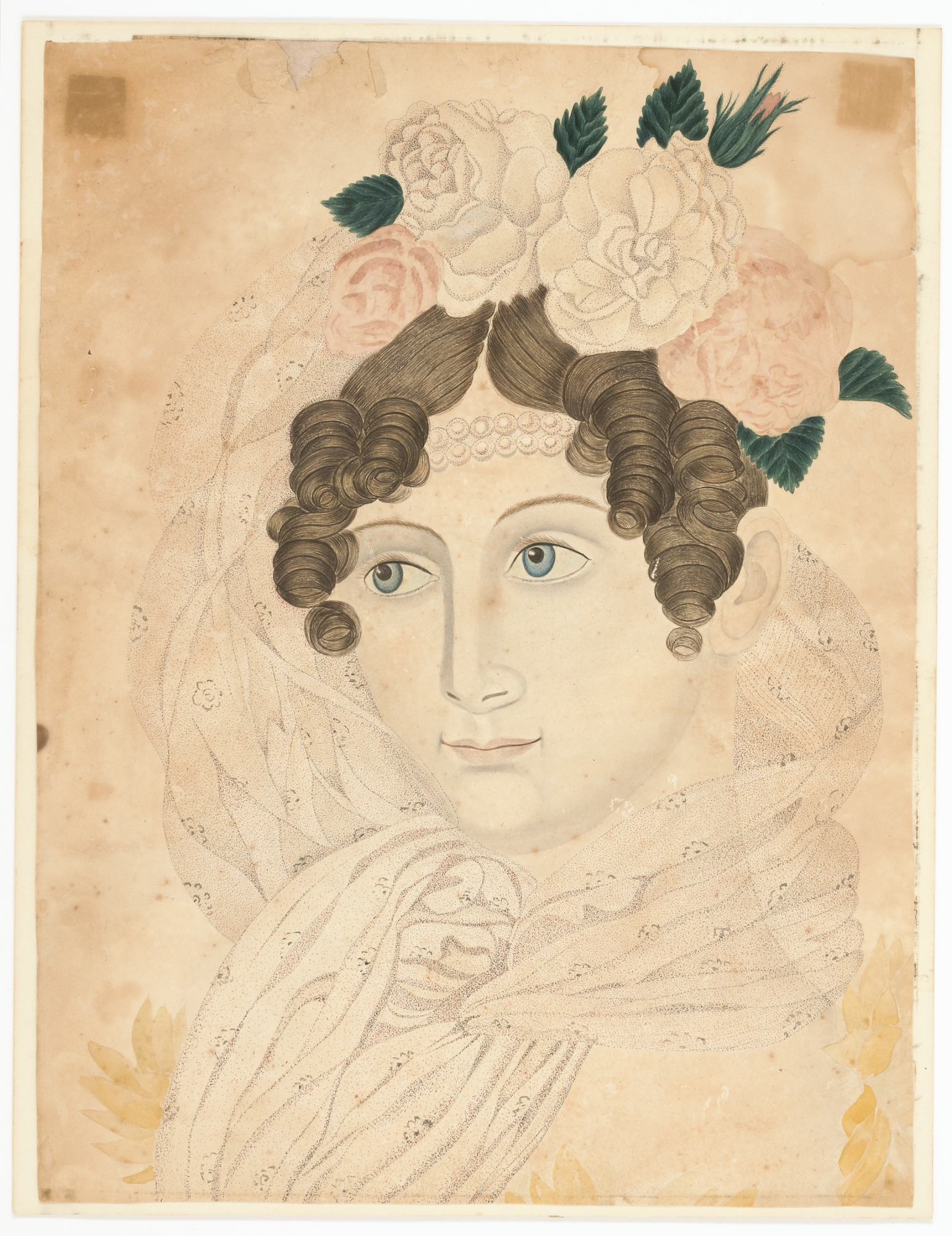 Pen and ink and watercolor on paper